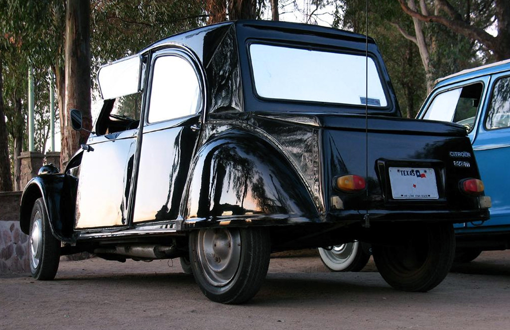 Chilean built Citroën 2 CV Azam 18 HP 1966, usually called the "Citroneta". The three-box bodywork was unique to Chile and Argentina, and was also available as a two-door and as a pickup.